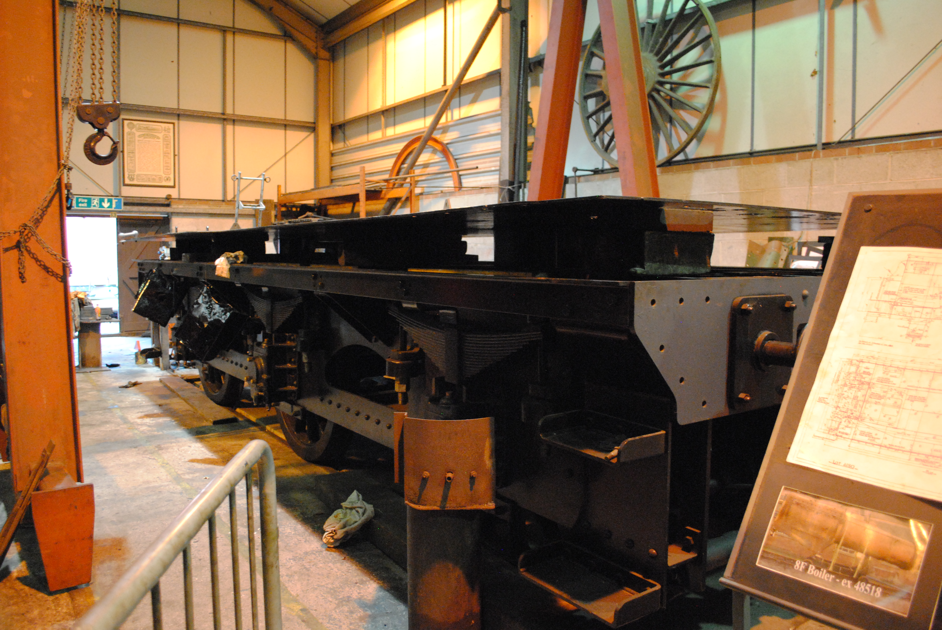 The tender for the GWR replica, 1014 County of Glamorgan